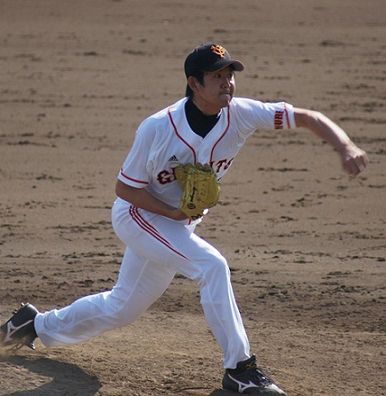 giants_suaga_37